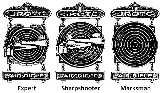 Drawings of the U.S. Military's and the U.S.Civilian Marksmanship Program's (CMP) Junior Reserve Officers' Training Corps Air Rifle Marksmanship Qualification Badges